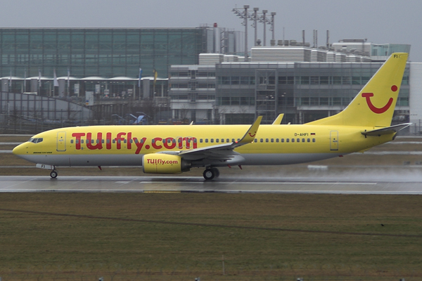 TUIfly Boeing 737-800 (D-AHFI) at Munich Airport Munich, Germany in front of Terminal 2